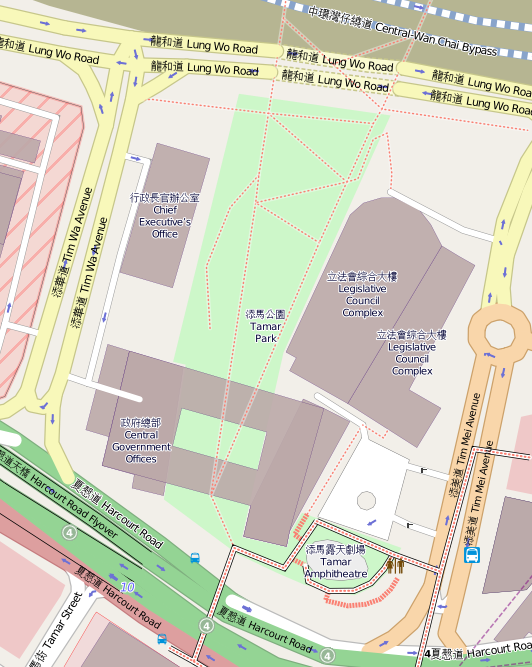 Map of Central Government Complex,Legislative Council Complex and Chief Executive's Office